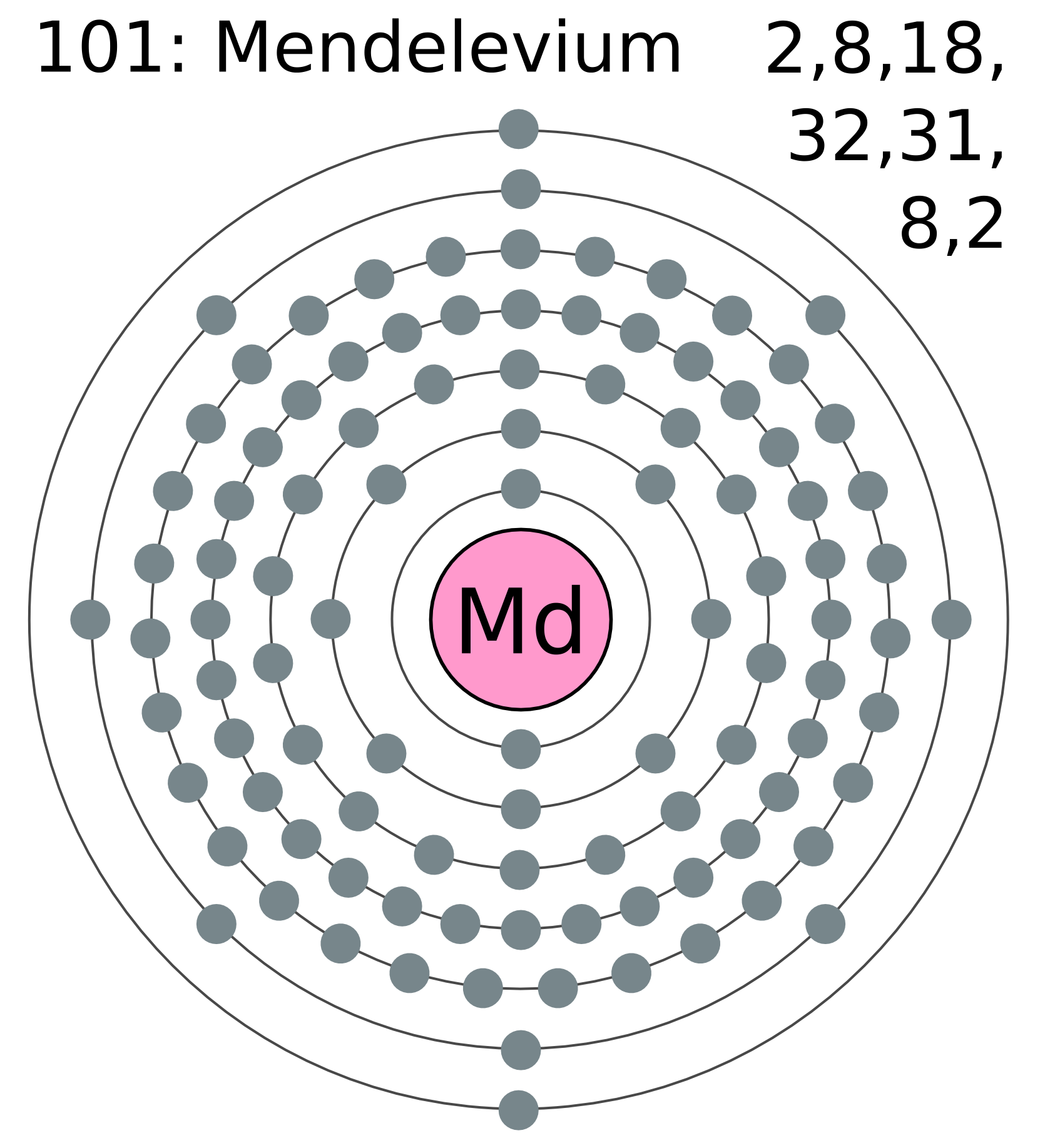 Electron shell diagram for Mendelevium, the 101st element in the periodic table of elements.